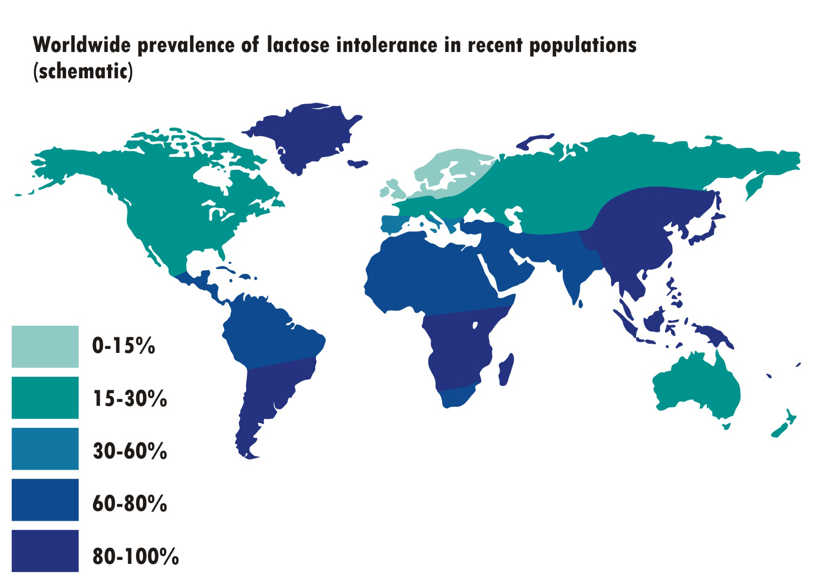 Worldwide prevalence of lactose intolerance in recent populations. An average of all ethnic groups of the total population of a country is represented. Because of sometimes poor data situation partly extrapolated.[1]